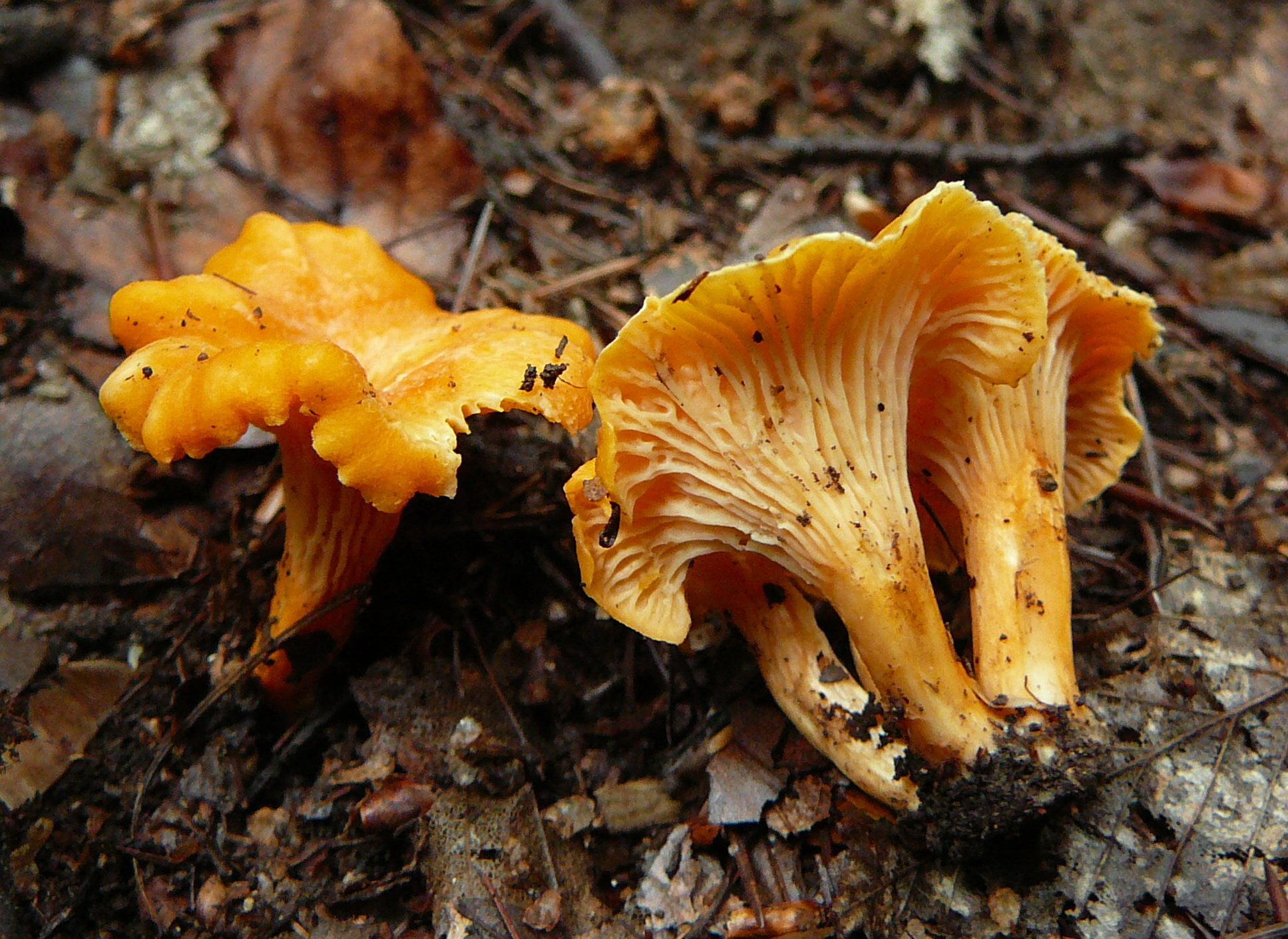 Cantharellus friesii , in Hornopožárský forest, Central Bohemia, the Czech Republic.